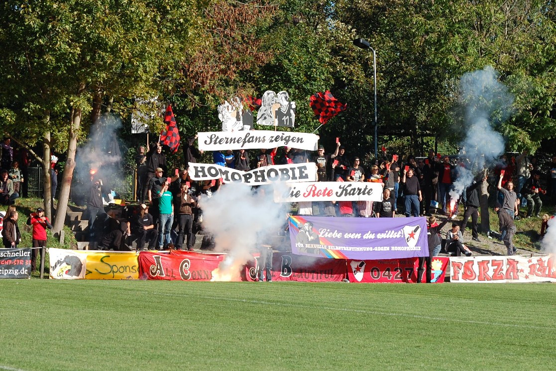 roter stern leipzig fans red star leipzig fans